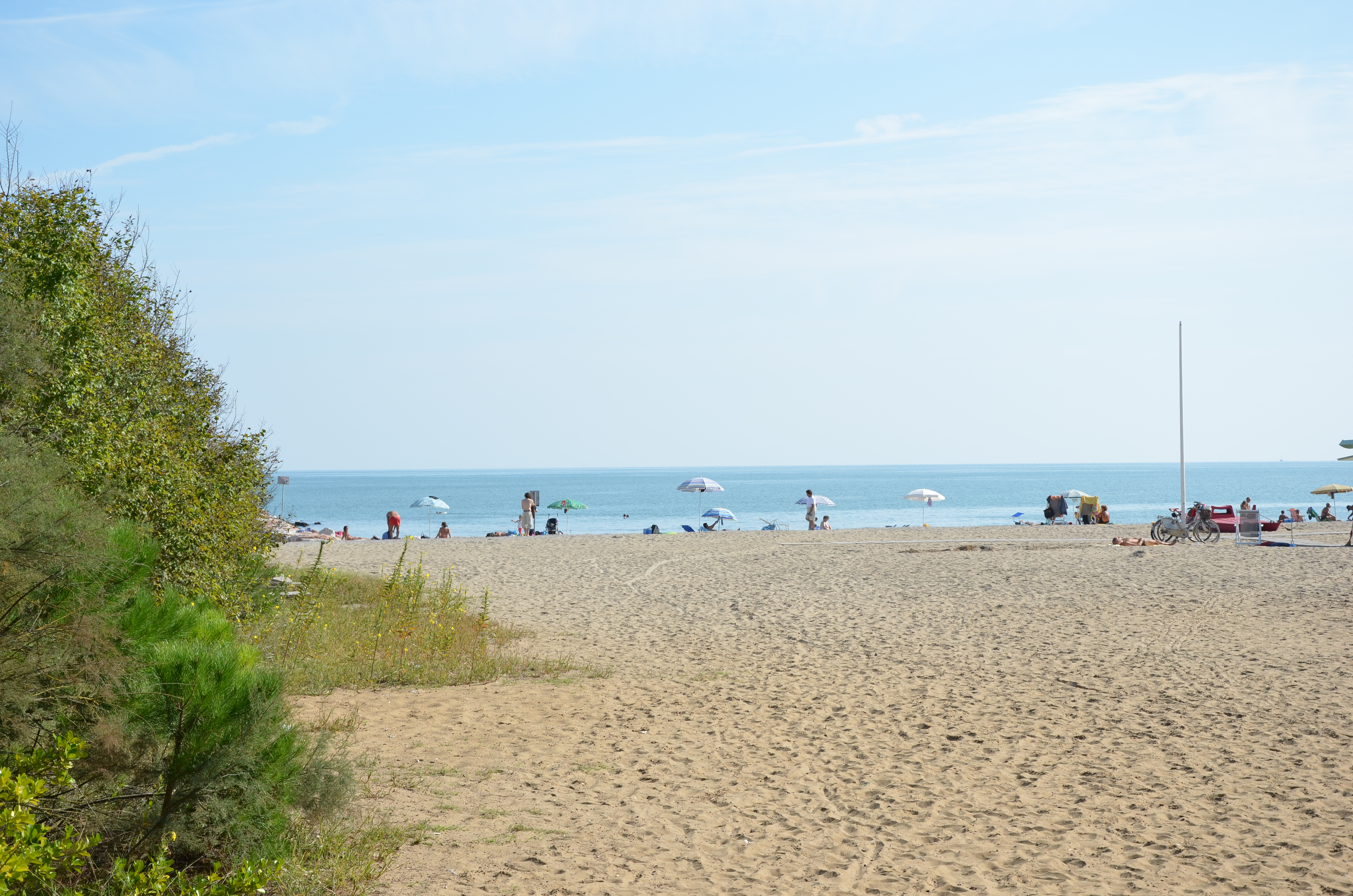 ERACLEA MARE: scorcio della spiaggia vista dalla pineta il 4 settembre 2011